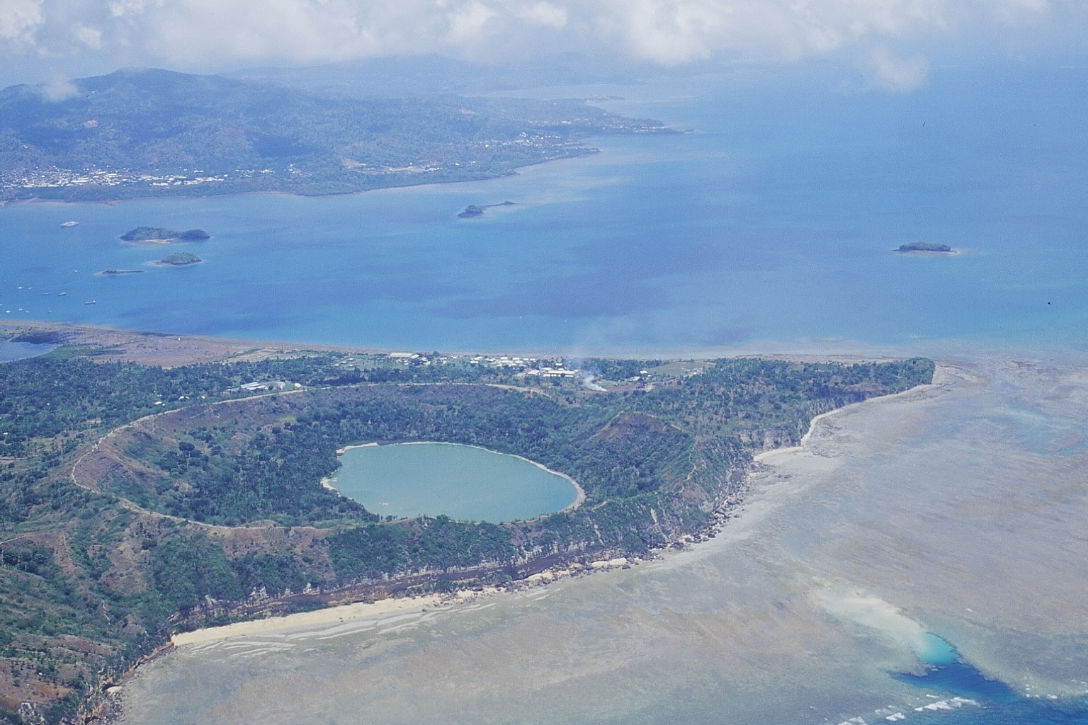 Aerial photo of Lake Dziani (Dziani Dzaha/Lac Dziani) in a volcanic crater (a maar) on the island of Petite-Terre in Mayotte in the Indian Ocean.